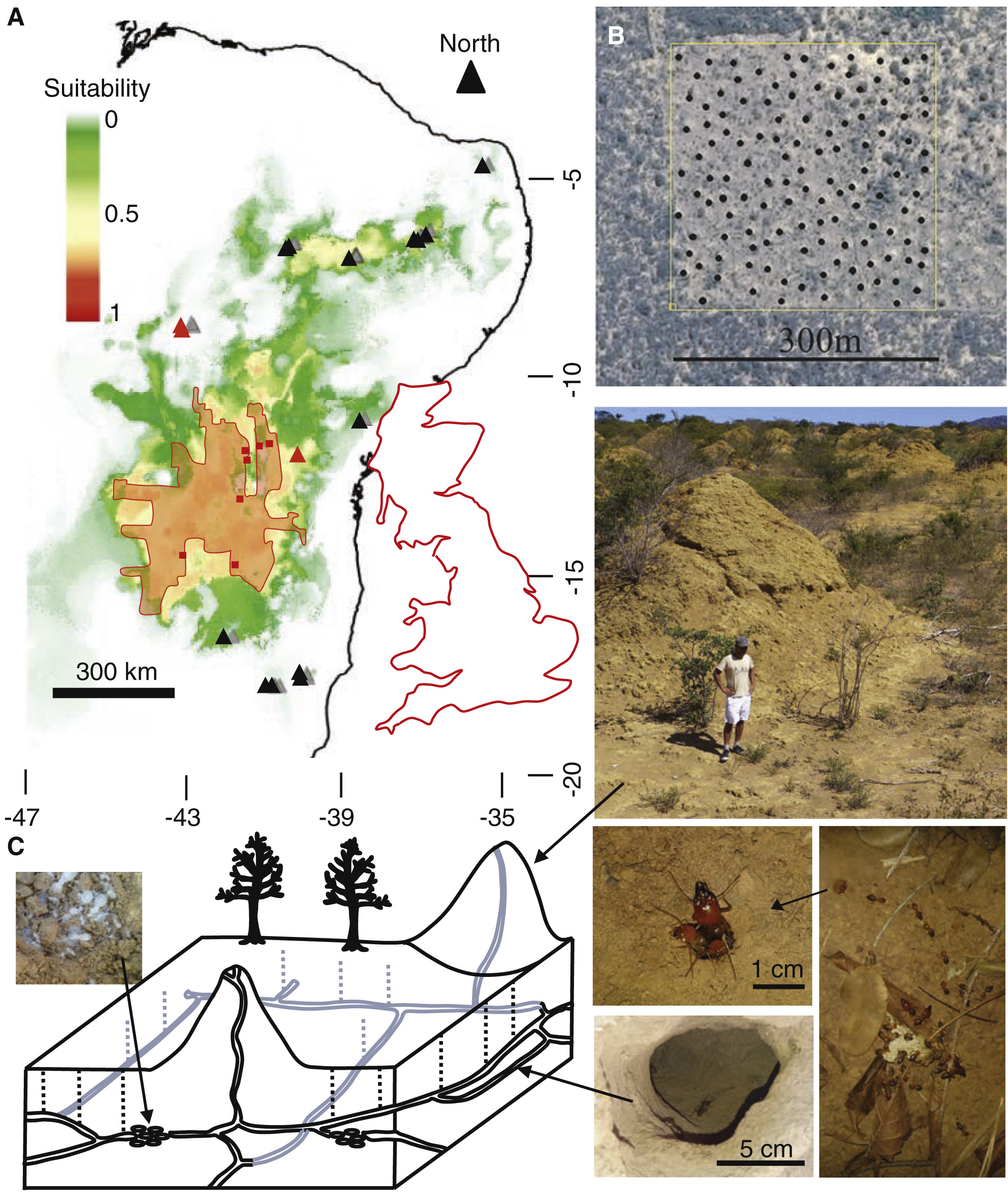 The distribution of Syntermes dirus termite waste mounds across Northeast Brazil and associate tunnel networks. (A) Core area (orange) of S. dirus mounds confirmed by ground visits. The MAXENT model predicted suitable area, and new mound sites confirmed by visits (orange triangle) or using satellite images (black triangles). Dated mounds indicated by red squares. Great Britain outline illustrates the extent of the mound fields. (B) Satellite image with the position of each mound indicated by a black dot, indicating an over-dispersed spatial distribution. (C) Sketch showing the mound structure and network of major tunnels (solid lines) and smaller vertical foraging tunnels (dashed lines). The images illustrate the various aspects of the sketch.